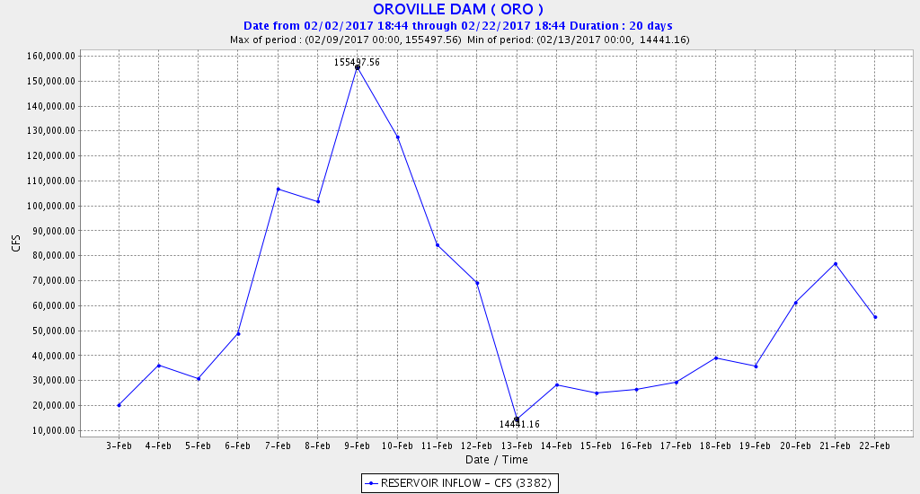 Plot showing Oroville Lake Inflow Feb 2017